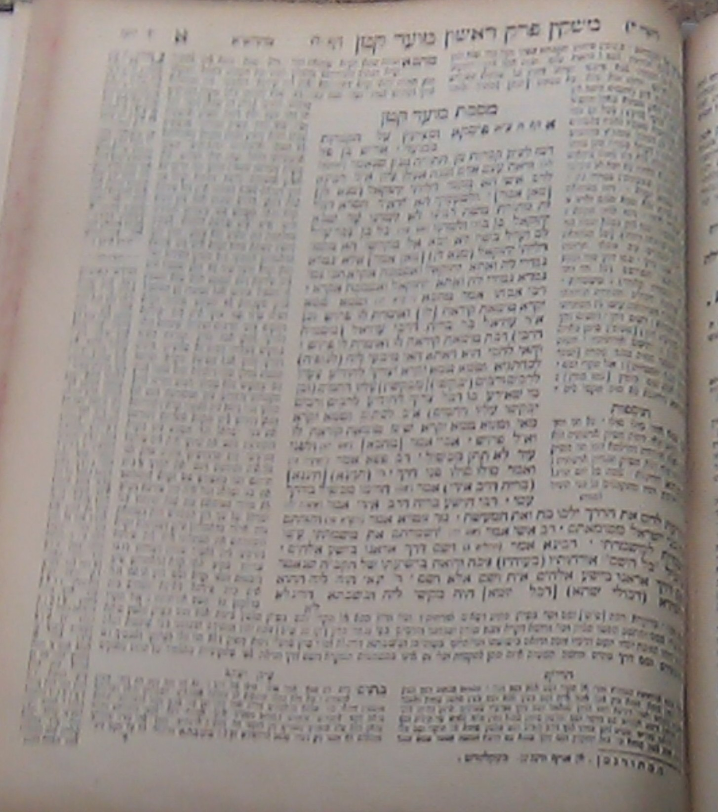 Tractate Moed Katan in En Jacob, printed in Vilnius before World War 2